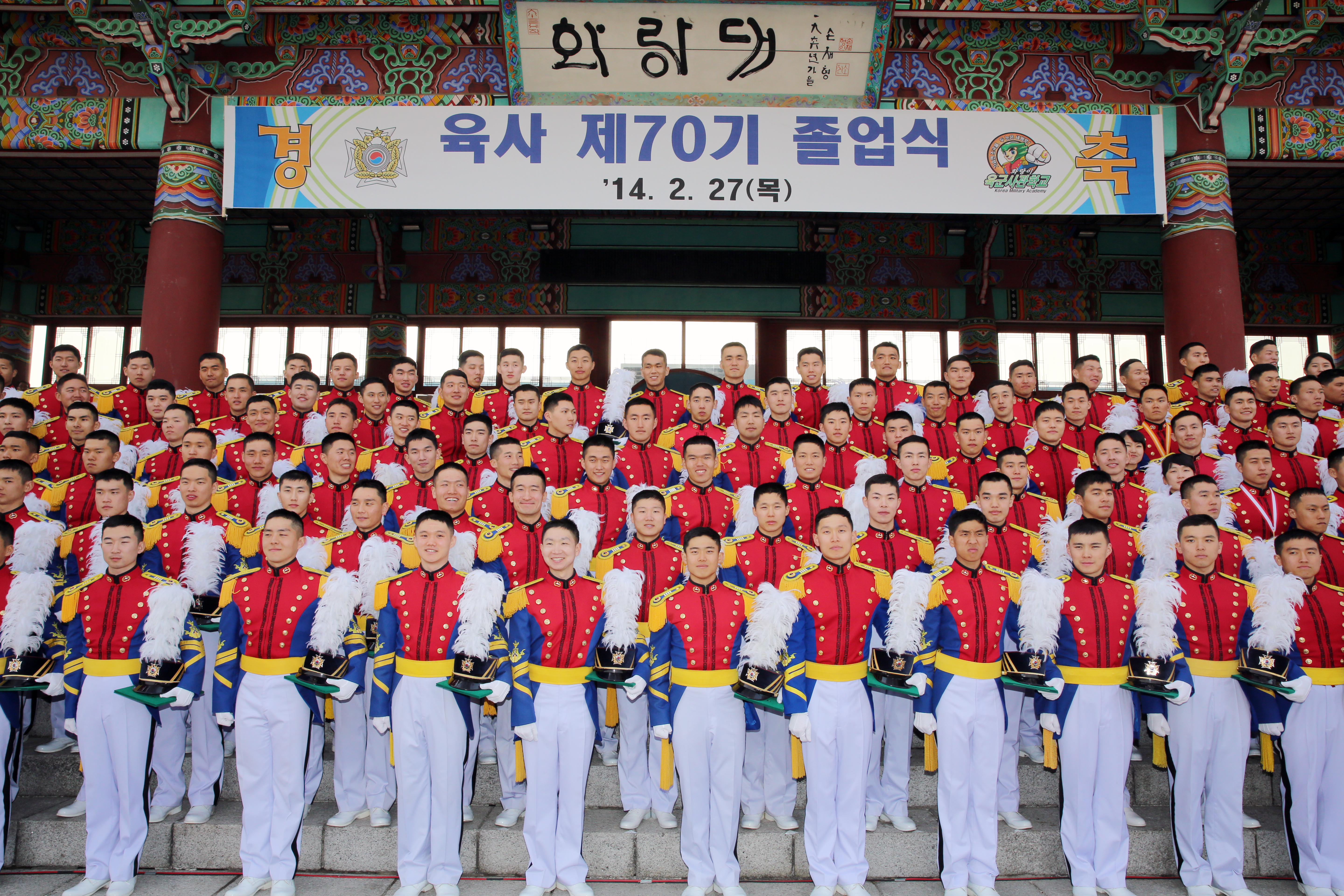 14년 2월 27일 실시된 육군사관학교 졸업식(Graduation Ceremony_Korea Military Academy)